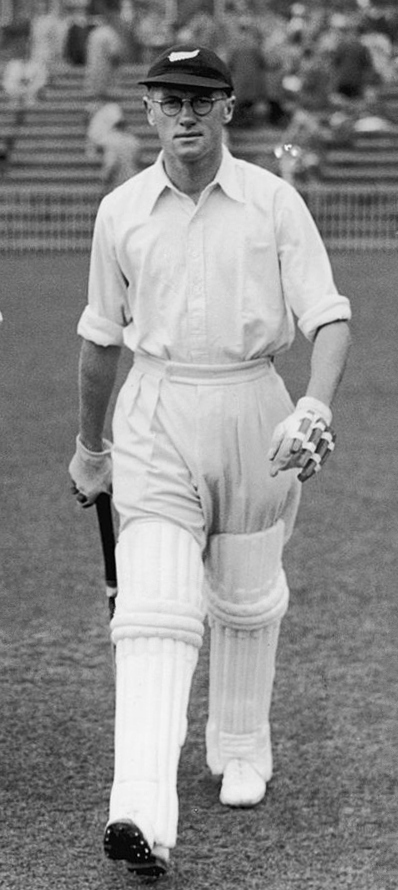 Sonny Moloney (1910 - 1942) of the New Zealand touring team come out to bat against England at Old Trafford, 1937.